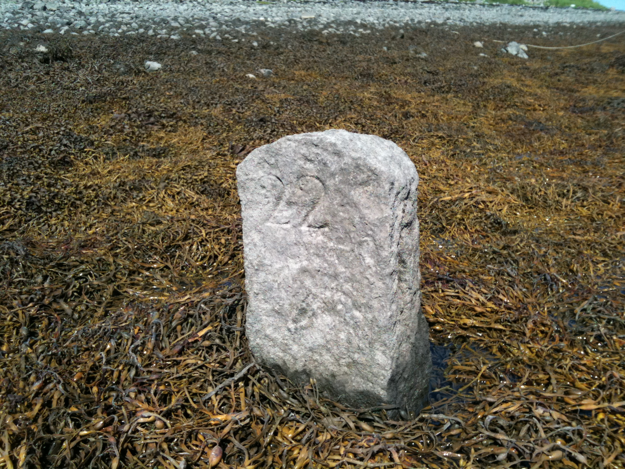 This Seaweed Mearing Stone is one of series of roughly dressed limestone pillars erected on the intertidal zone along the South Mallmhuir, Island Eddy. These stones marked the boundaries between the plots from which seaweed was harvested. Probably late 18th or early 19th century in date.